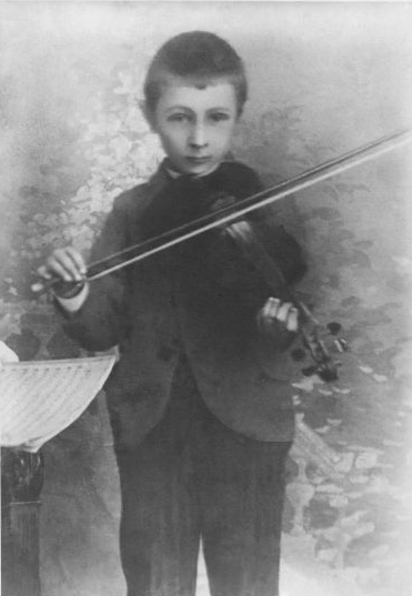 Bohuslav Martinů six or seven years old playing violin. Bohemia, Policka, around 1896